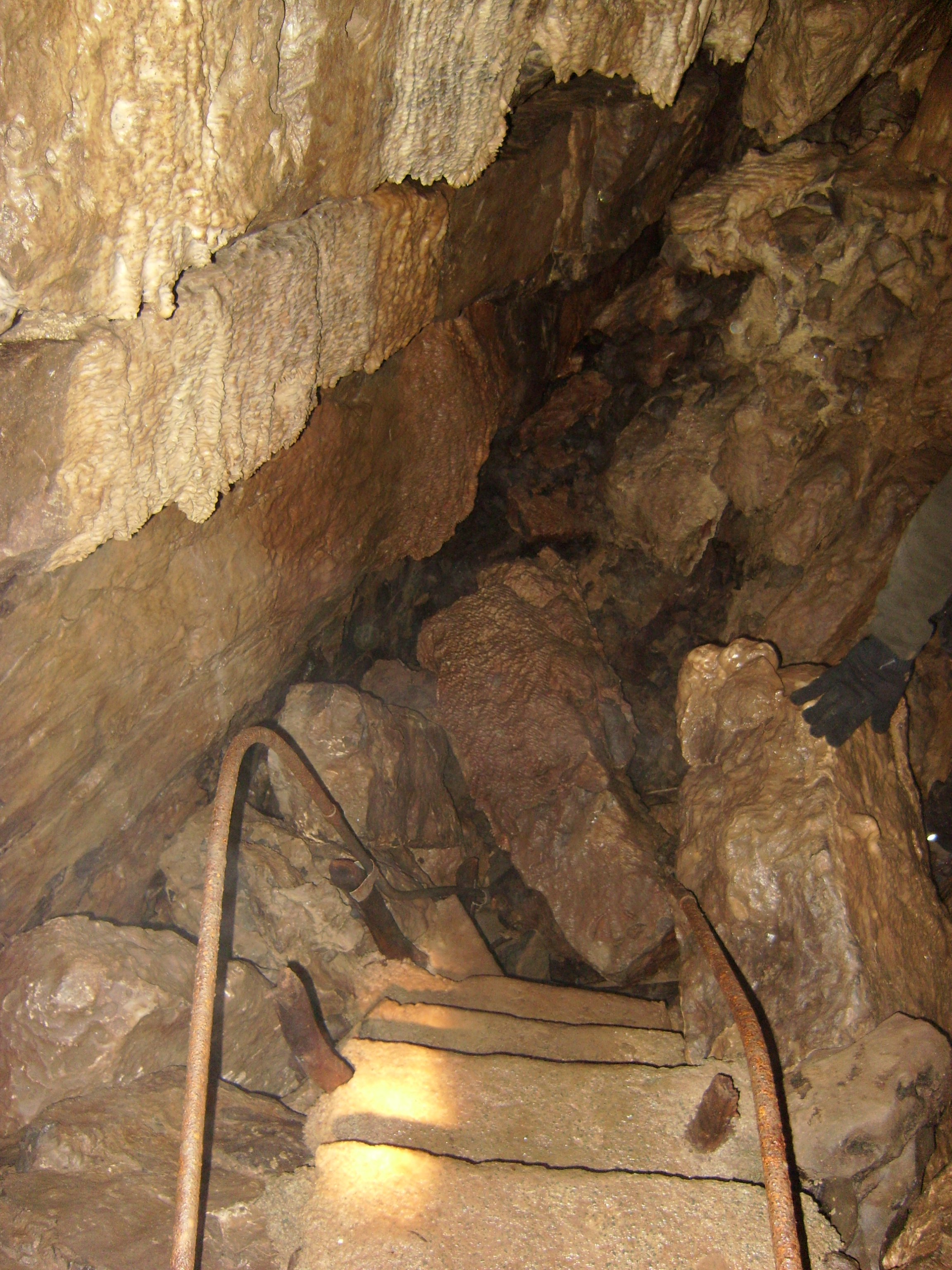 This is the remains of the staircase in Skirwith Cave, now having been buried under a recent collapse.